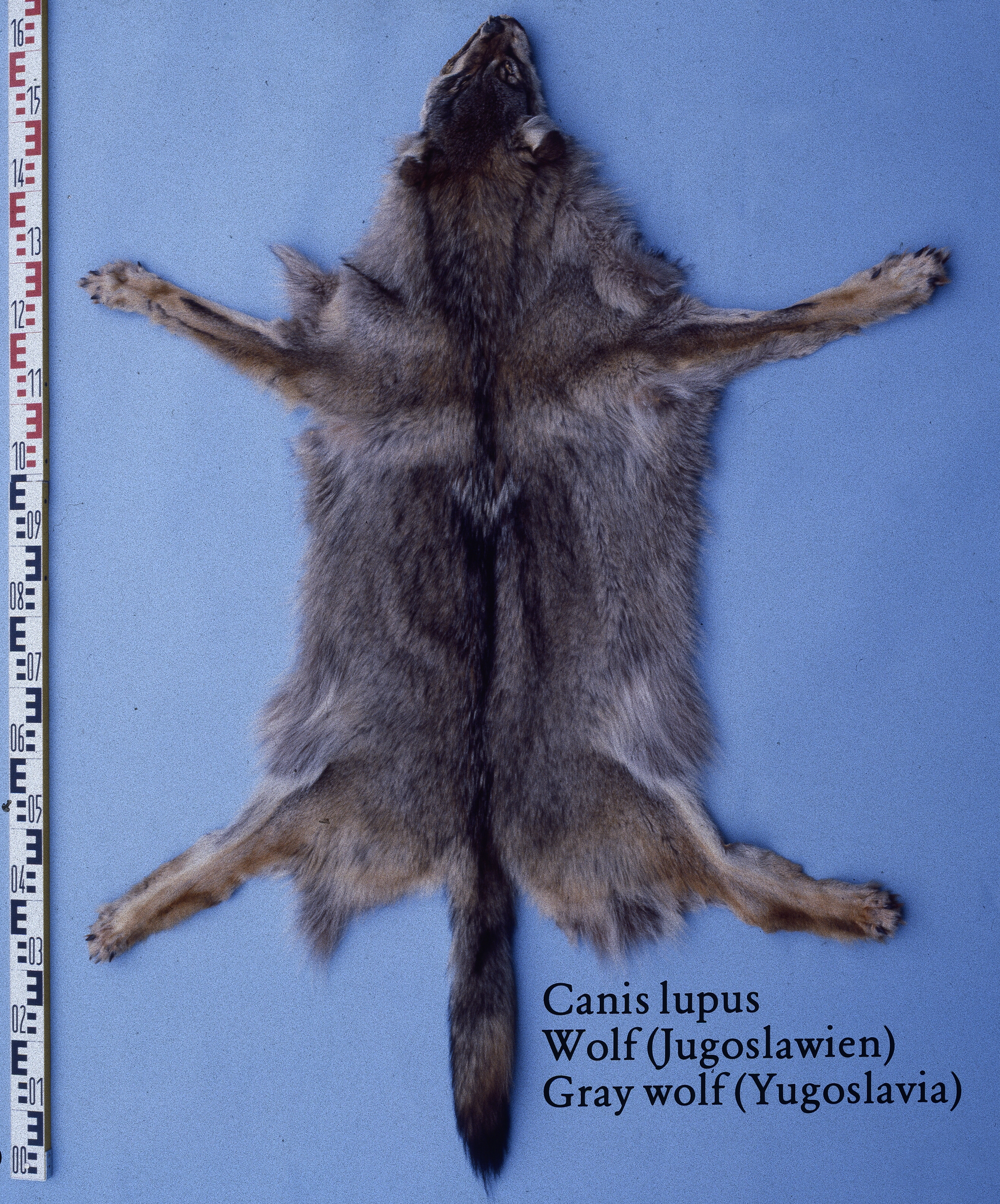 Grey wolf fur skin (Canis lupus), Yugoslavia. Fur skin collection, Bundes-Pelzfachschule, Frankfurt/Main, Germany